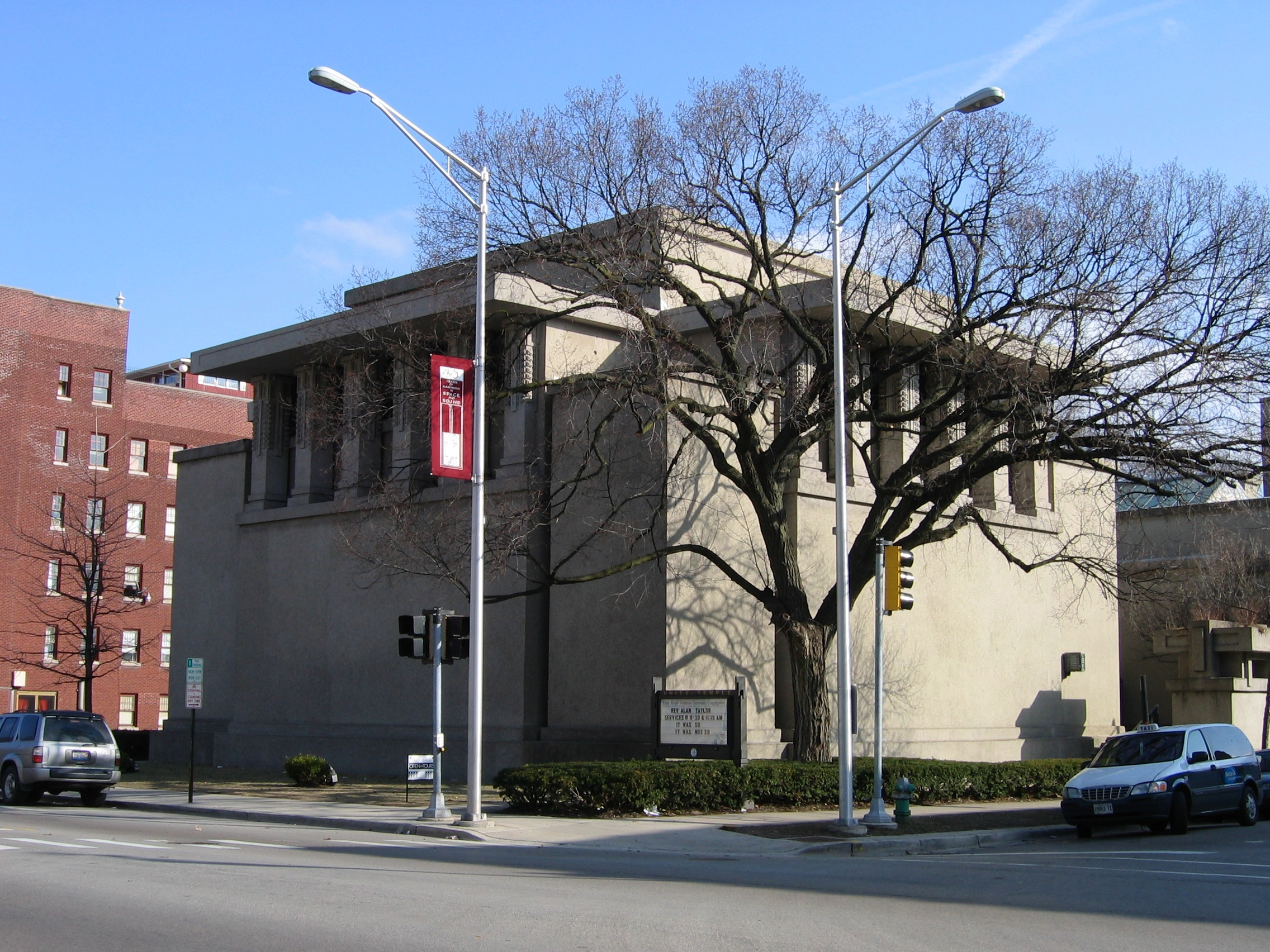 Photo by User:Aude